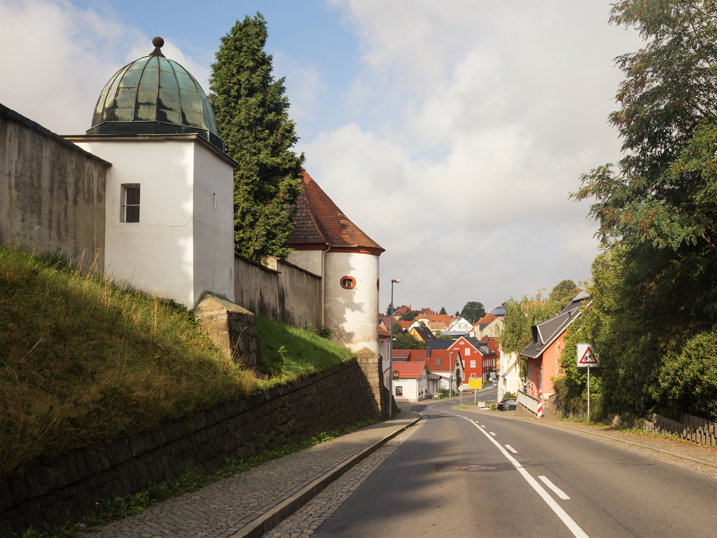 Panschwitz-Kuckau, view onto the village